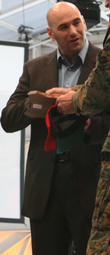 Picture of Dana White taken by a Marine during the course of their official duties, so it is in the public domain.